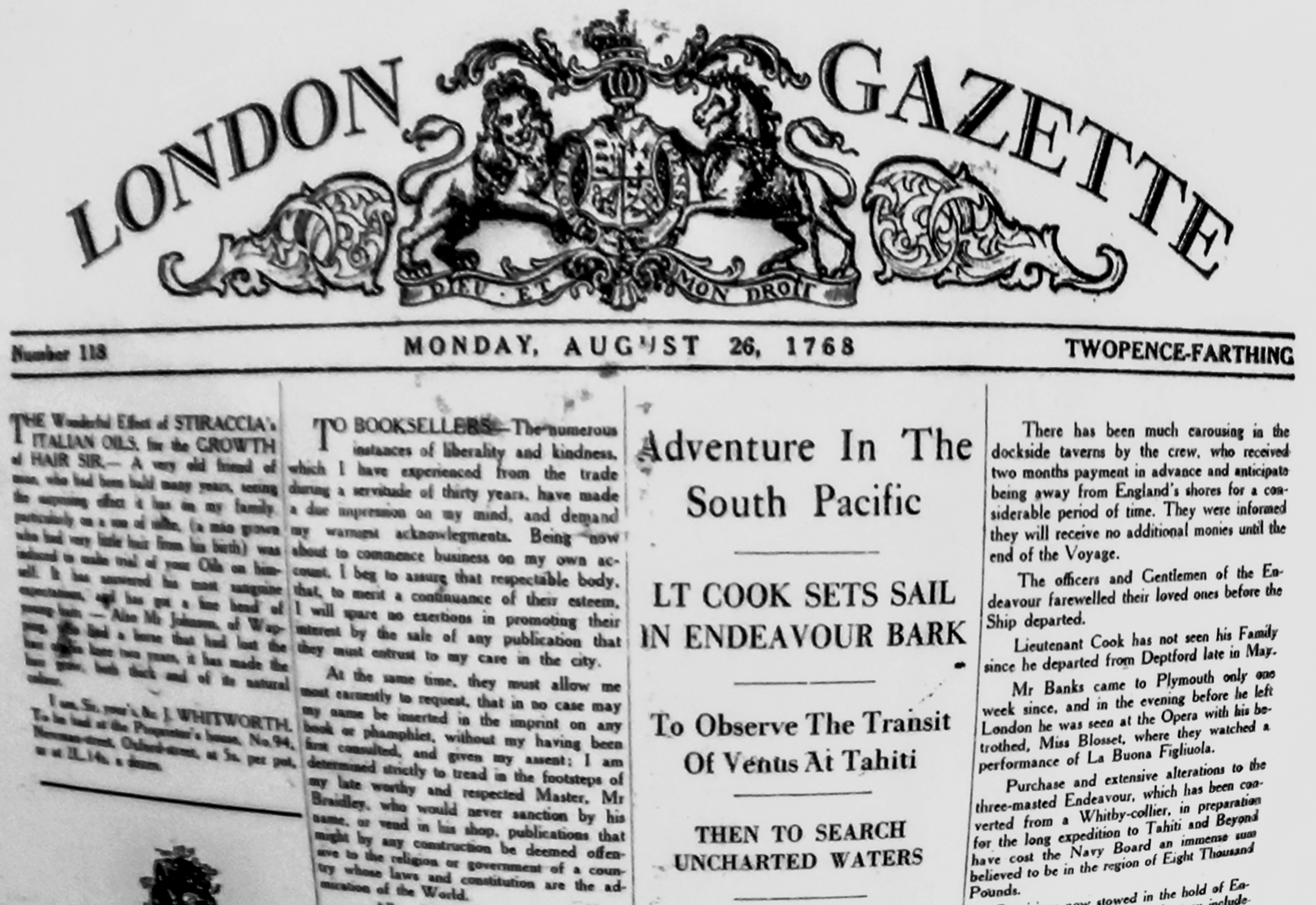 official announcement of the first voyage of James Cook